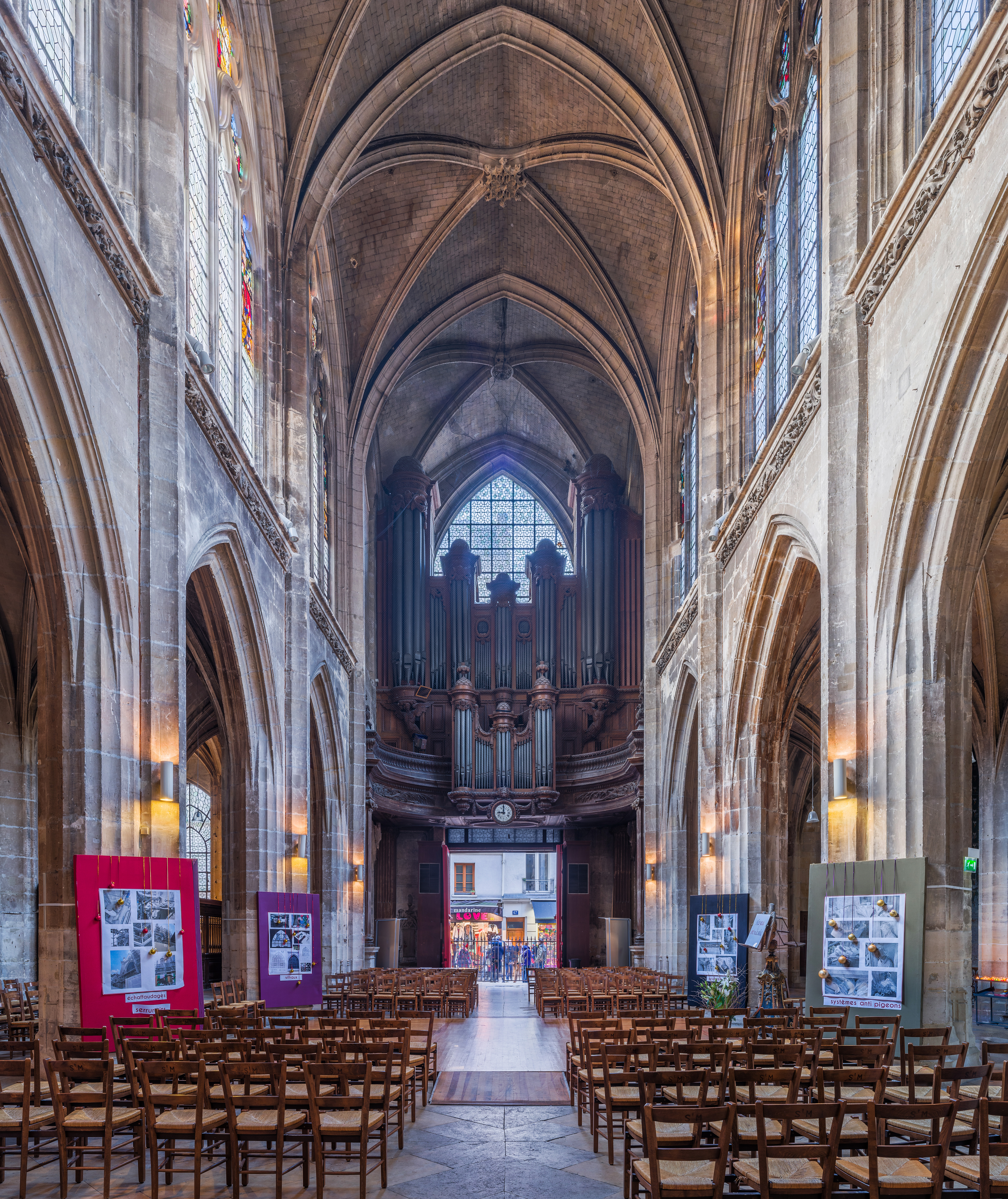 The interior of Saint Merri Church in Paris, France, looking towards the organ and western entrance.